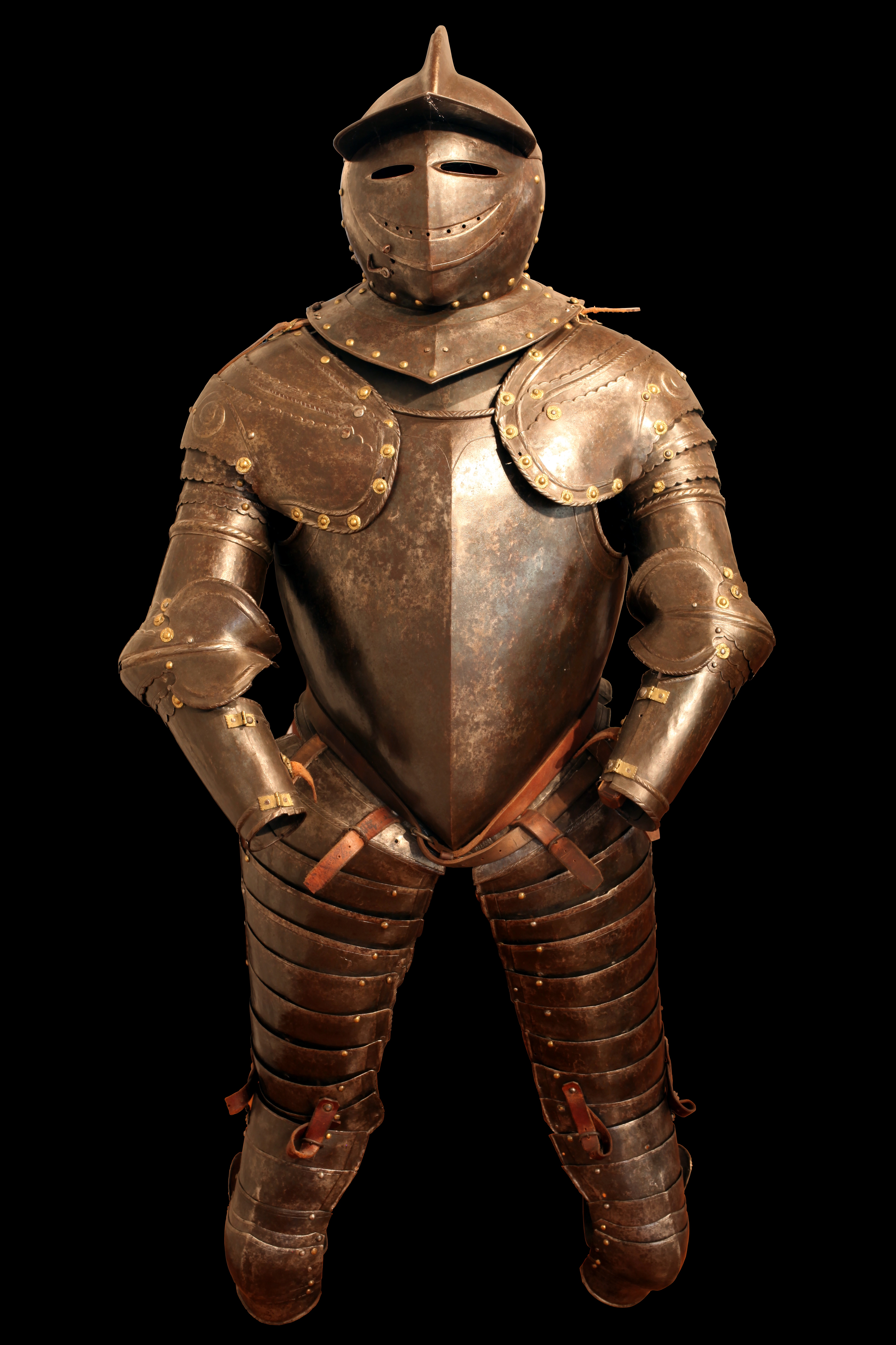 Cuirassier's armour in Savoyard style, ca. 1600-1610. On display at Morges military museum